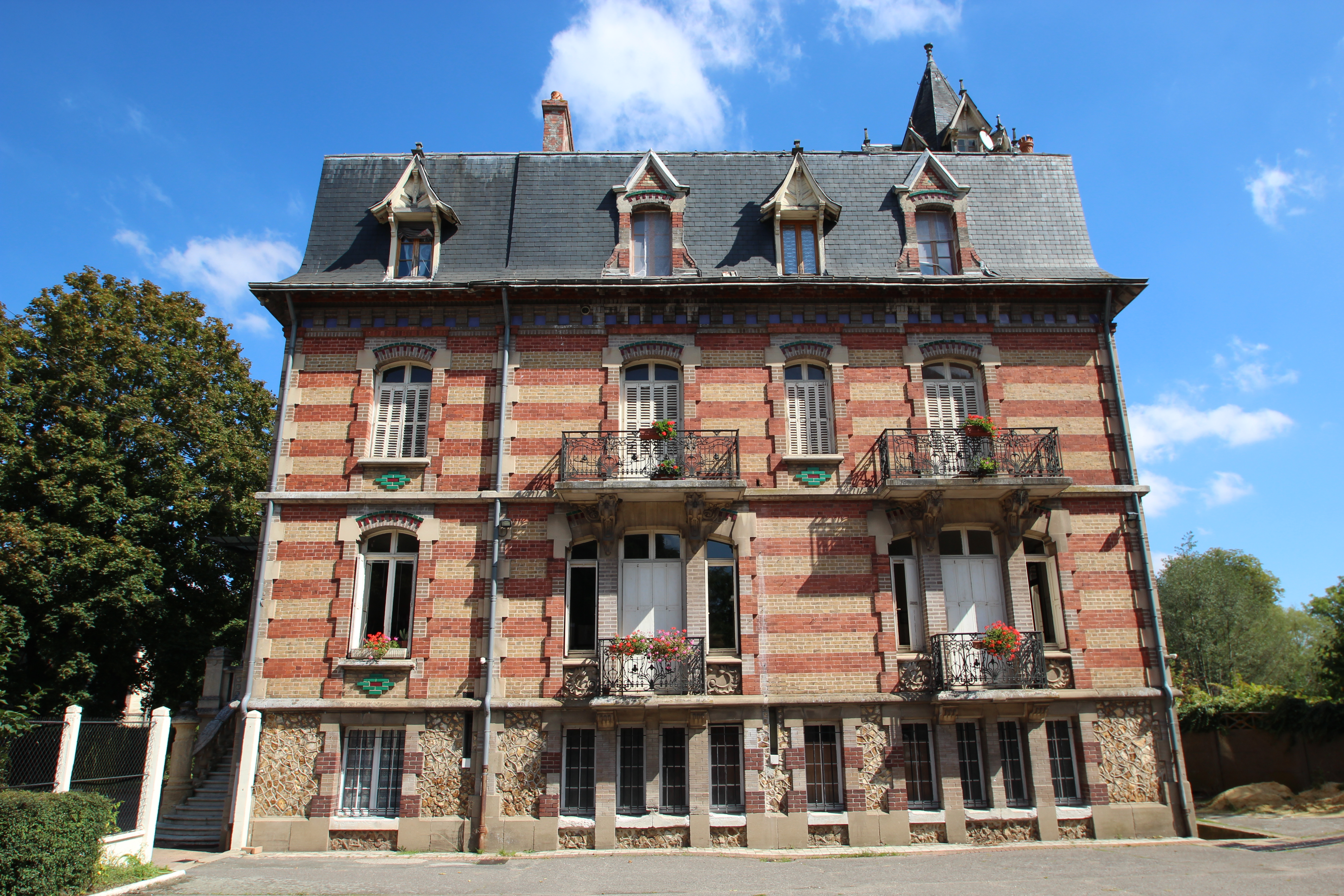 Town hall of Saulnières, Eure-et-Loir, France. Object location48° 39′ 30.41″ N, 1° 16′ 26.96″ E